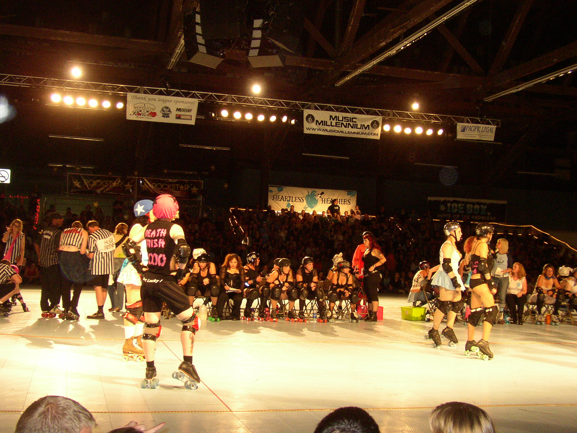 Silly costumes and sillier names